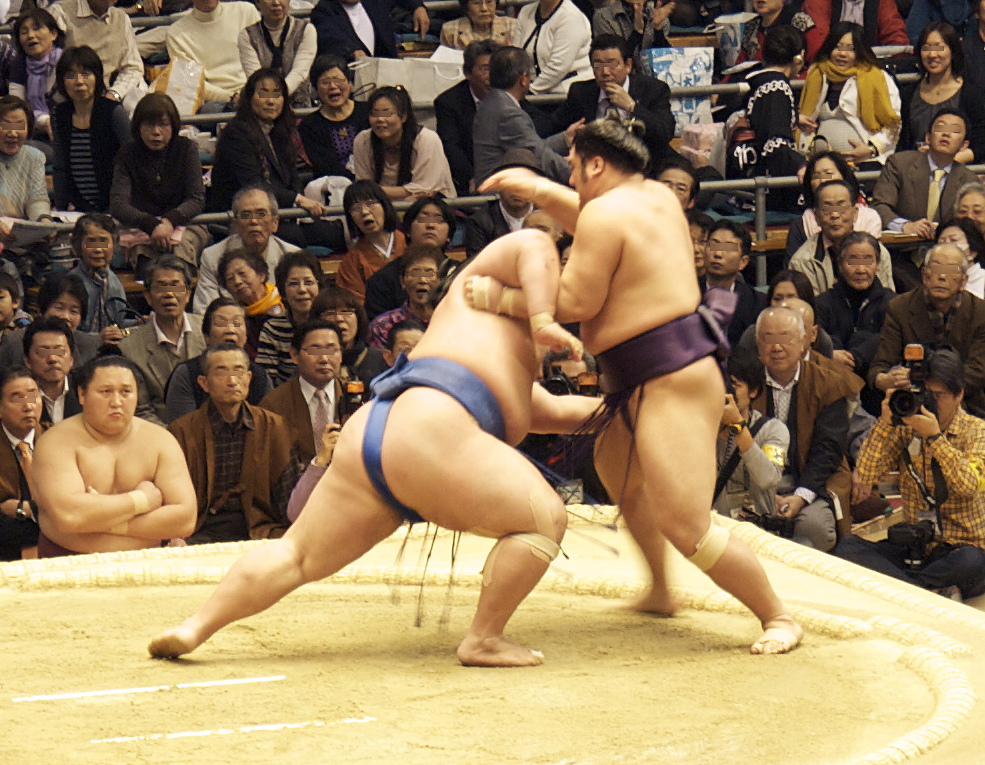 2010 March Grand Sumo at Osaka. Canon EOS 350D